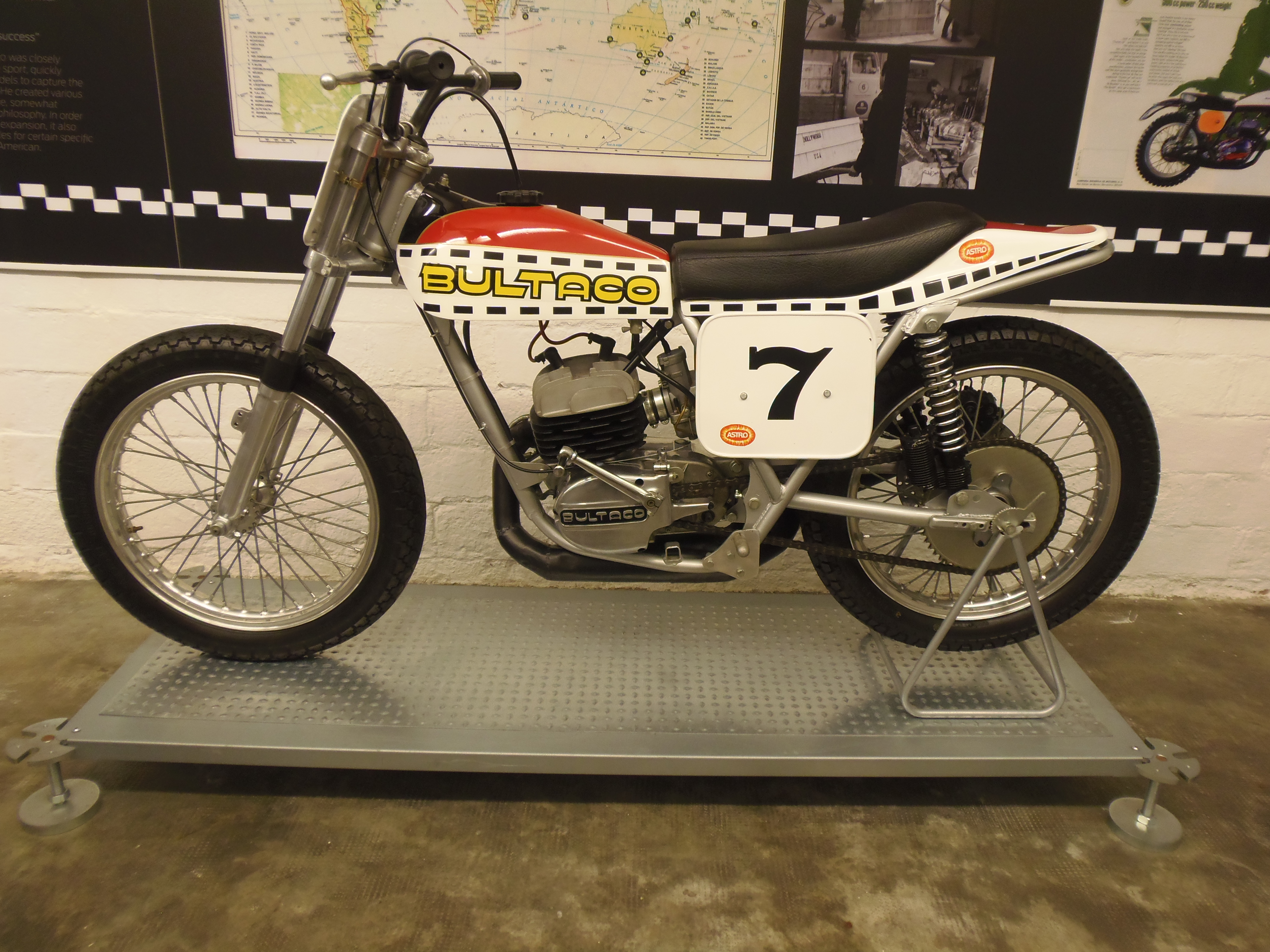 Bultaco Astro, 360 cc, 1976